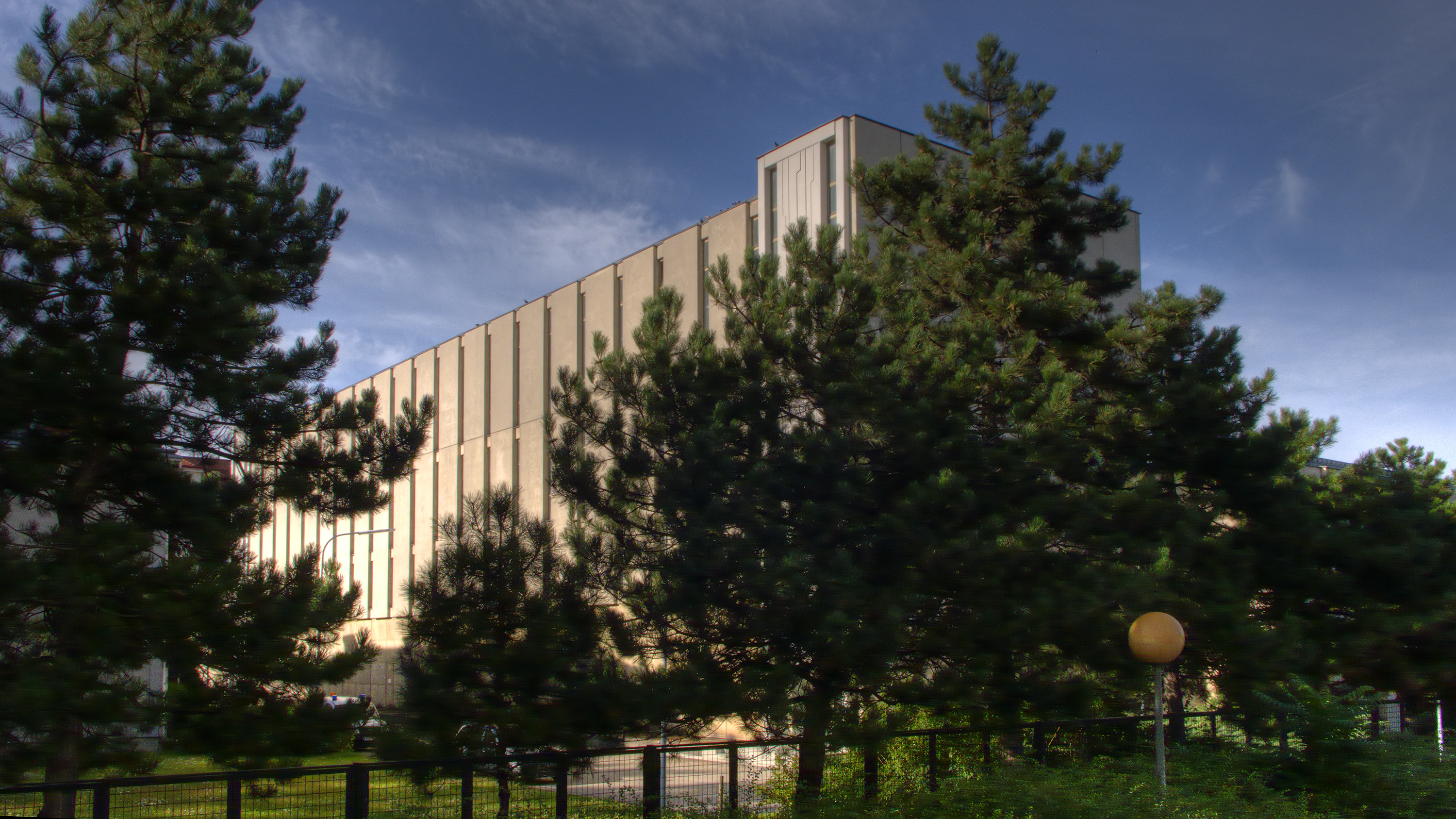 Umspannwerk Handelskai in Vienna / Leopoldstadt